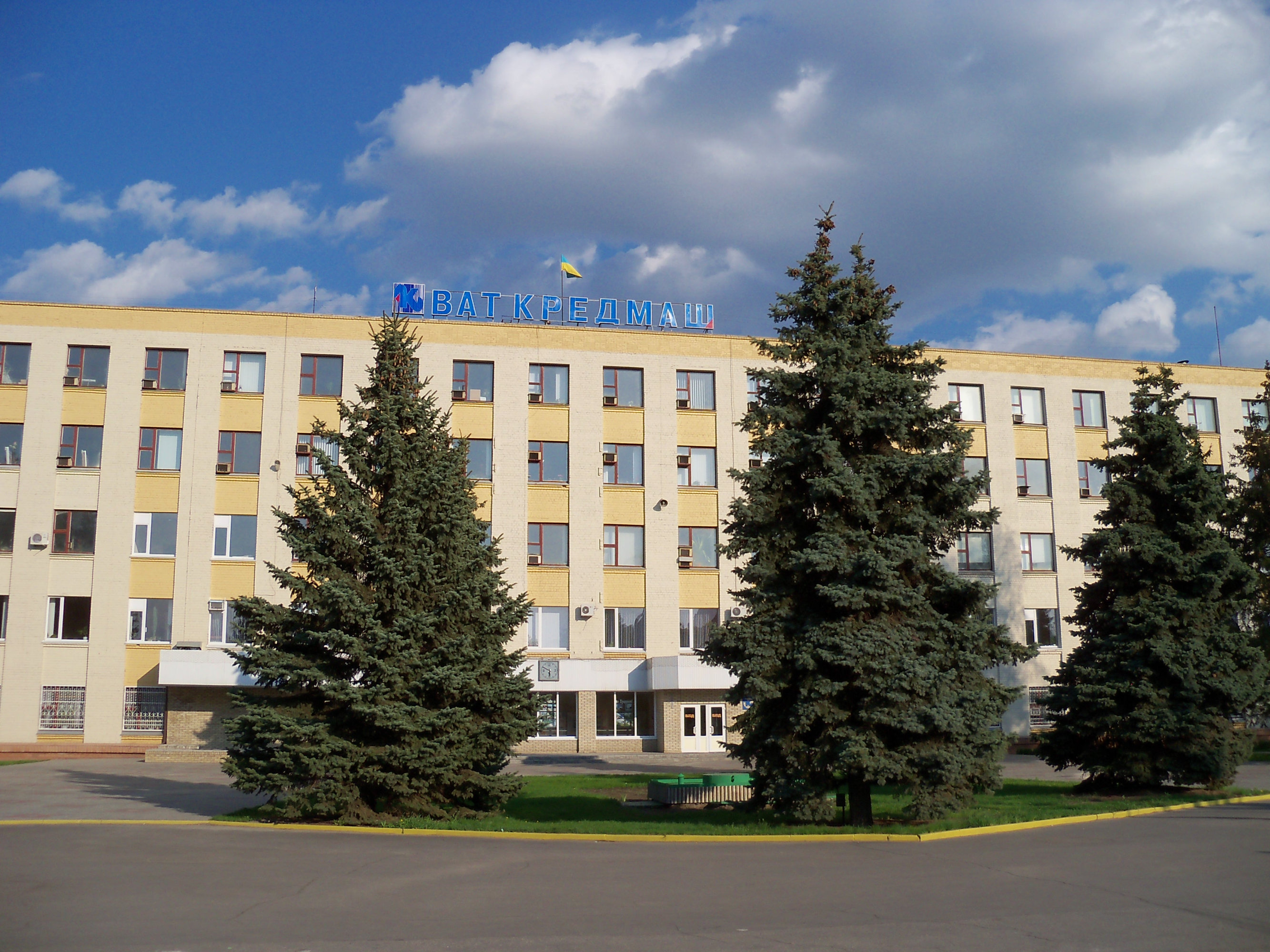 Enter to the Kremenchuk plant road machines